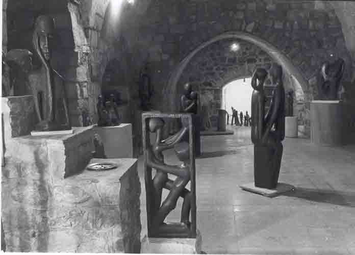 גלריה של הפסלים